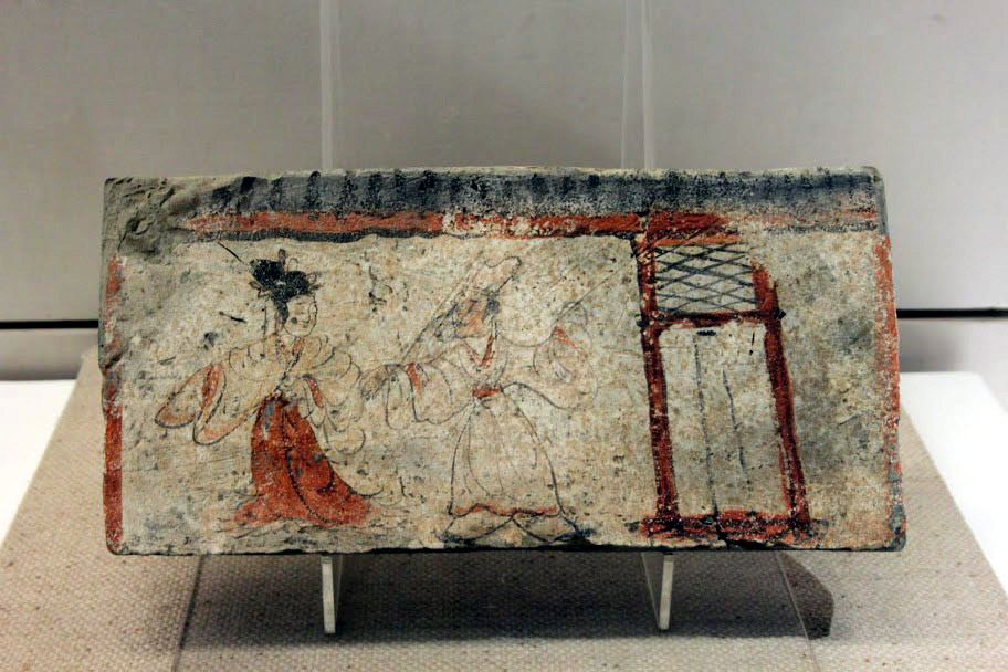 A Chinese Three Kingdoms (220-280 AD) decorated brick taken from the wall of an underground tomb, depicting people in a domestic scene.